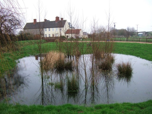 Pond at Manor House Farm The L-shaped building dates from about 1700, when it was known as Petherton Park. The property has since been divided, and Petherton Park Farm adjoins on the west. Seen from the Macmillan Way which follows the track to Fordgate.